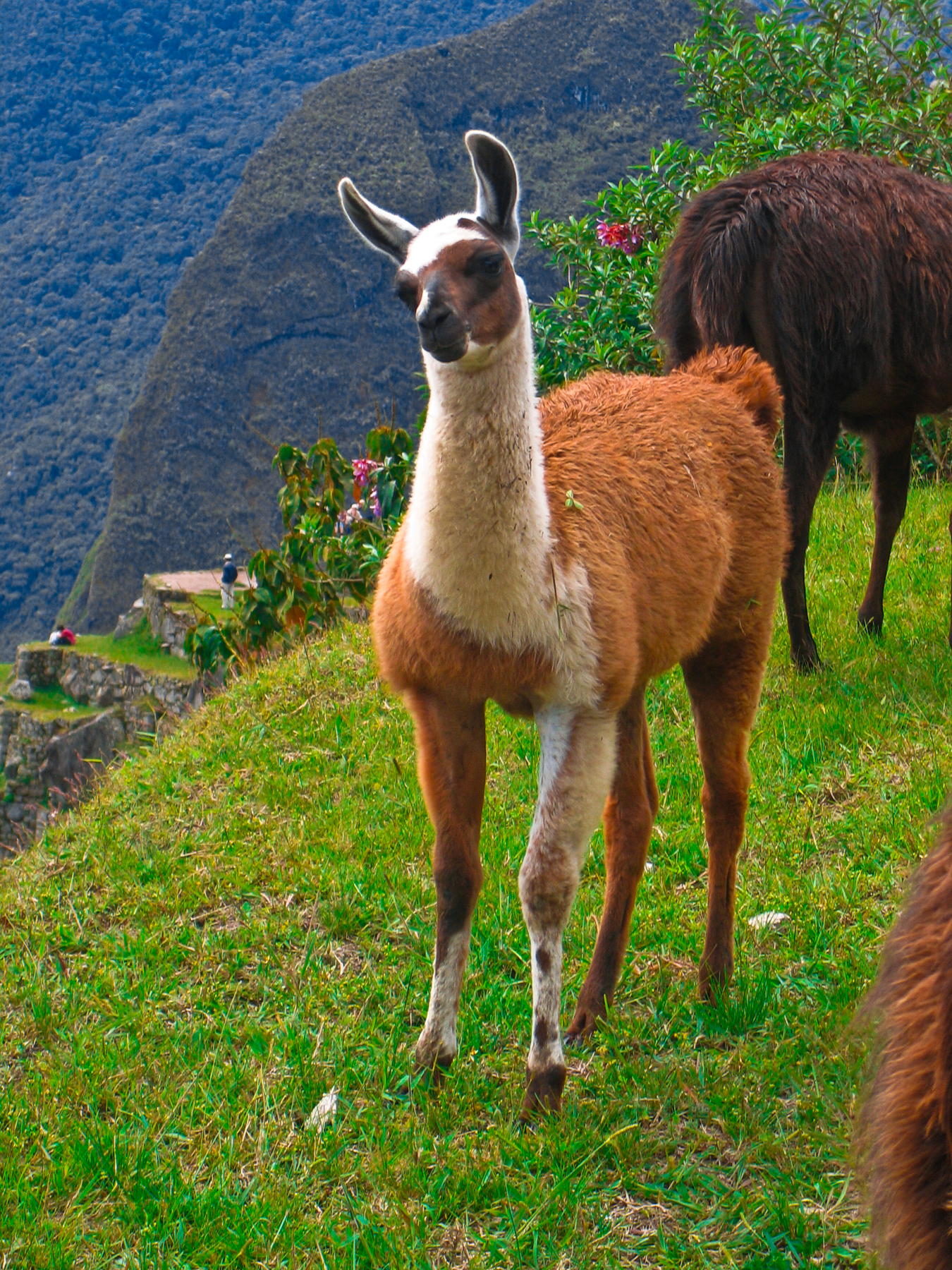 Llama from the ancient Inca site of Machu Picchu, Peru.